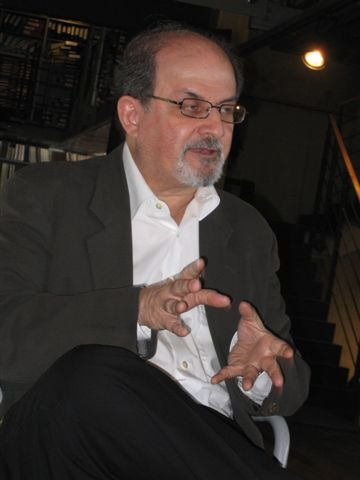 Salman Rushdie (b. 1947), British-Indian writer